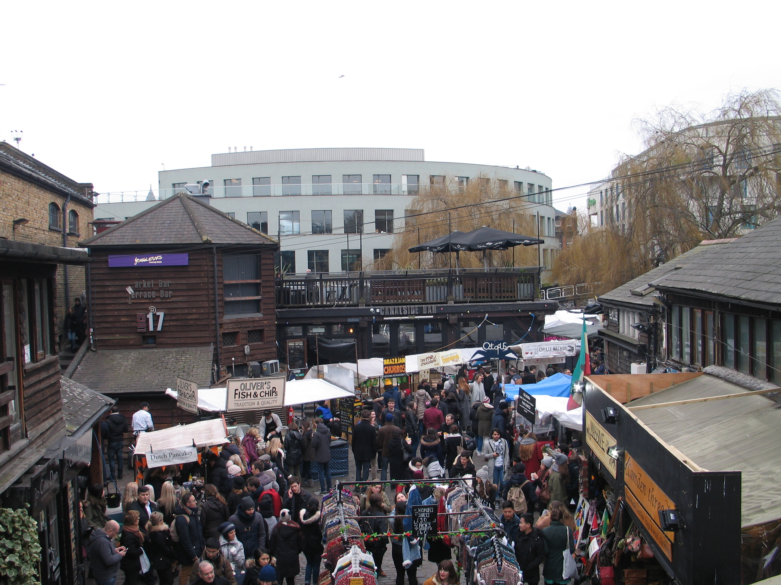 Camden Market seen from the 1st floor balcony